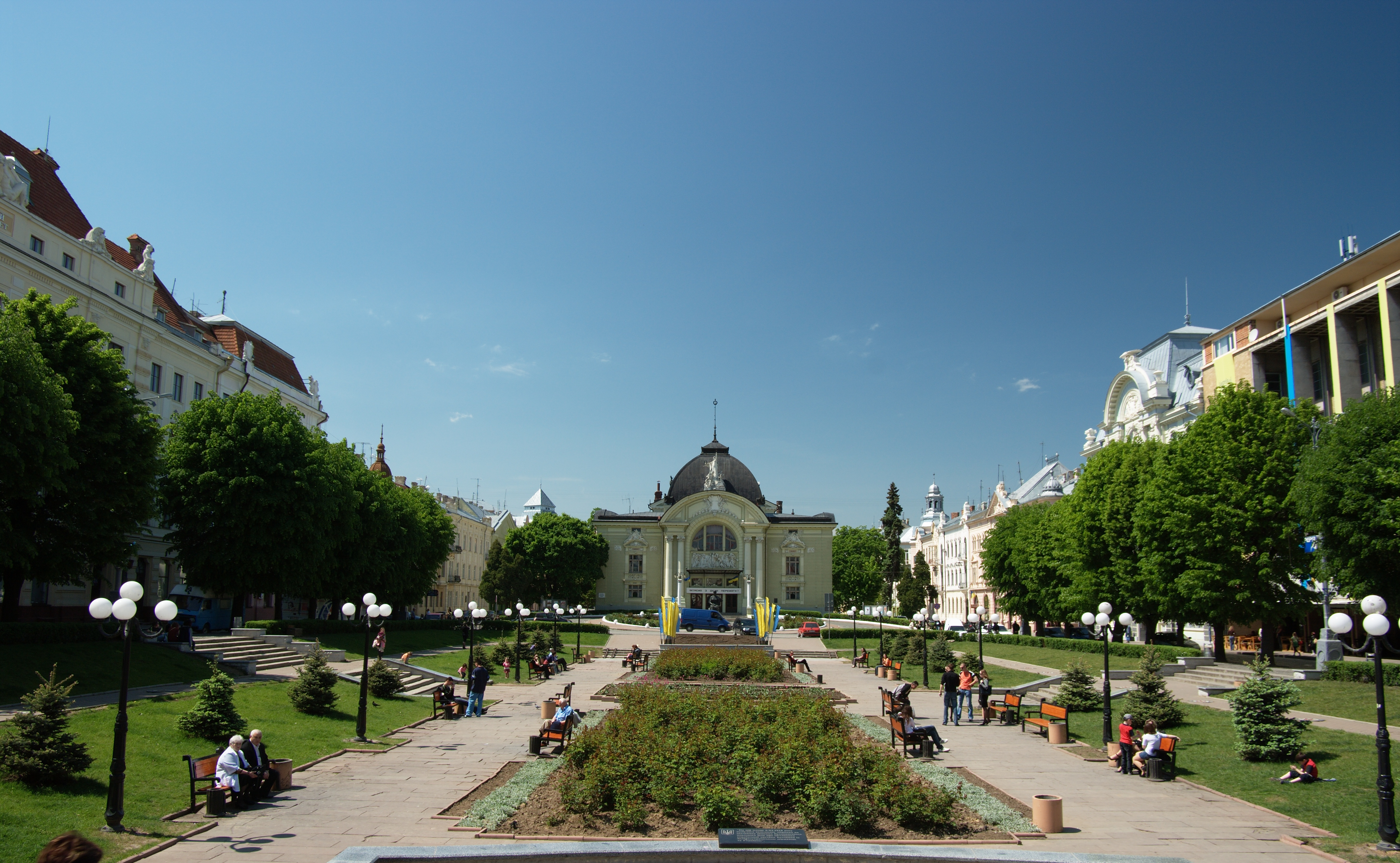 Chernivtsi Theatre Square